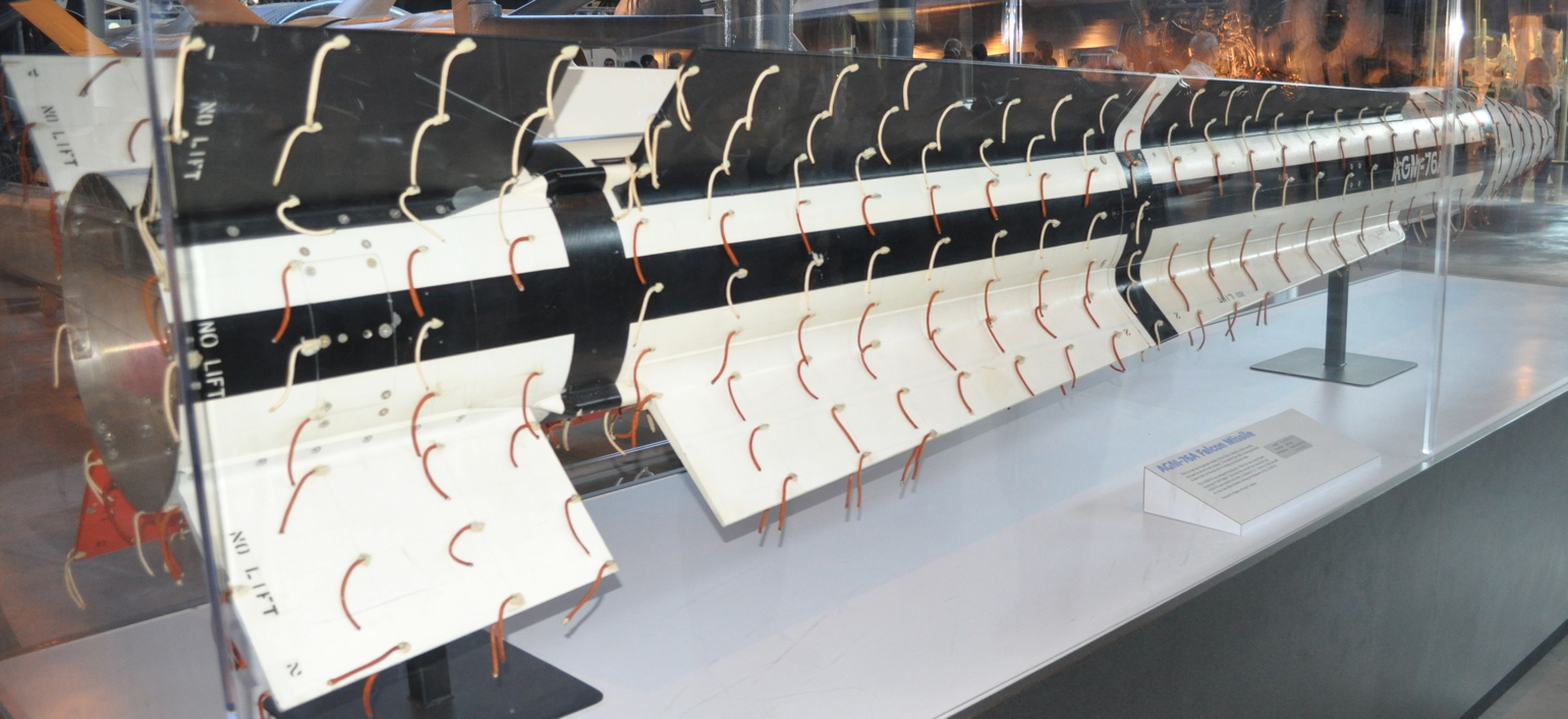 Aerodynamic test model of the AGM-76A missile on display at the Steven F. Udvar-Hazy Center